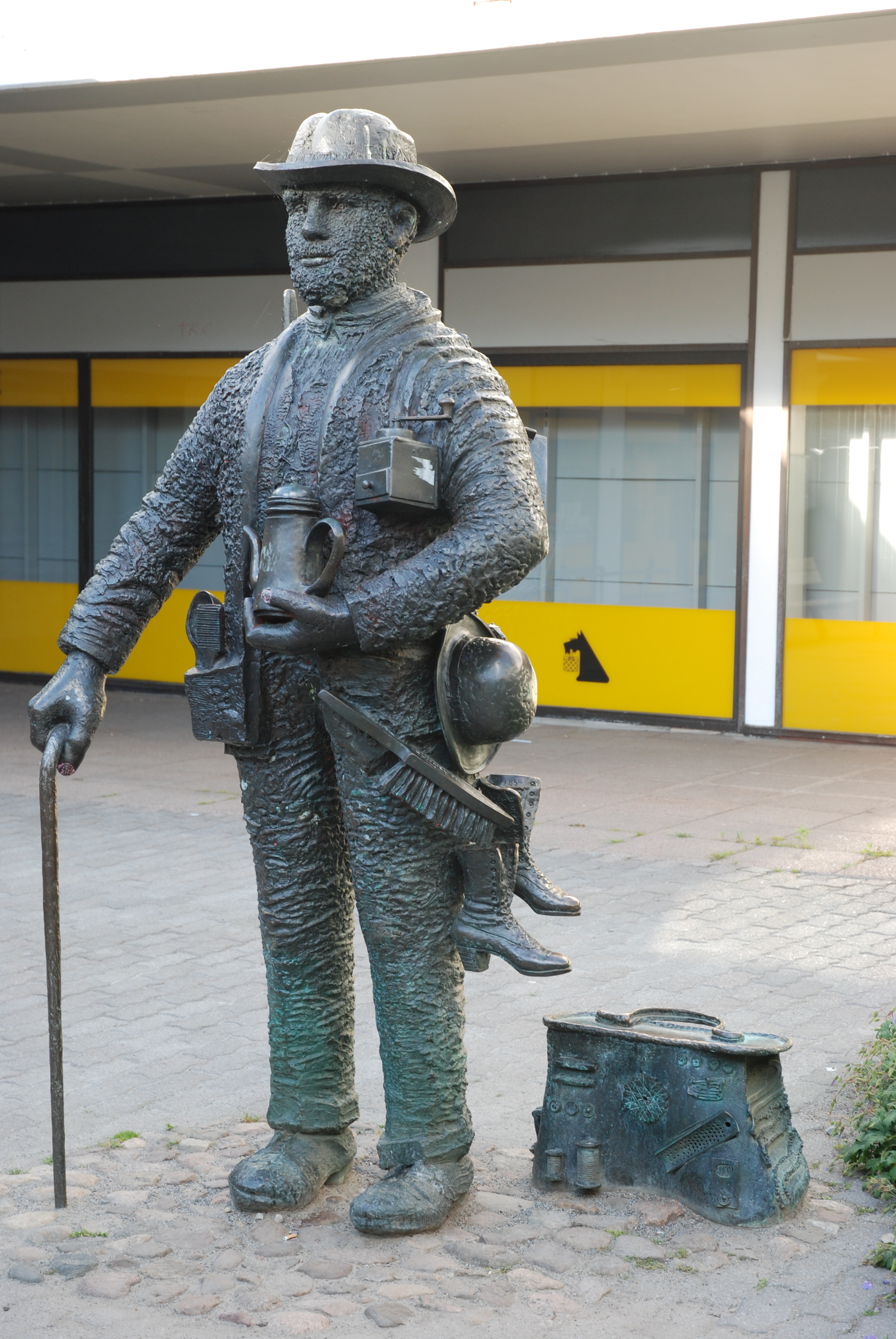 Gunnel Frieberg' s Gårdfarihandlaren, Klostergårdens centrum, Lund